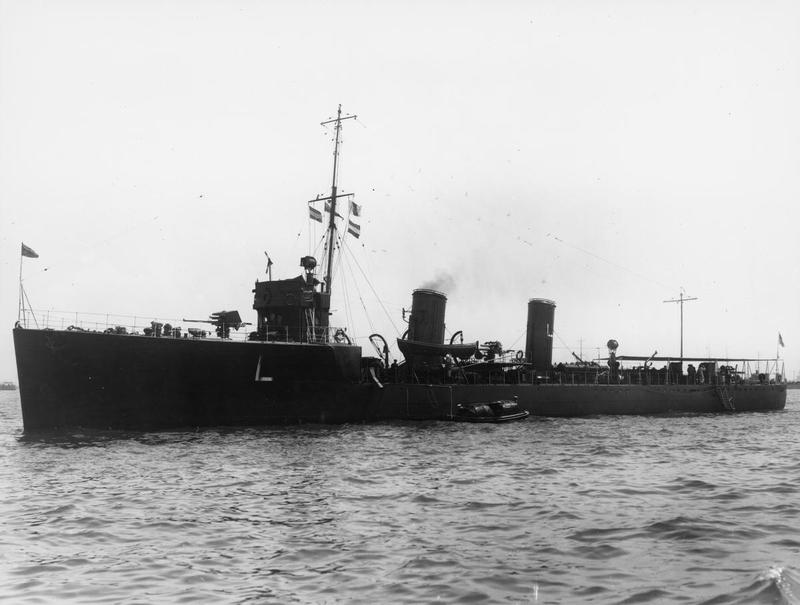 Ships of the Royal Navy Pre 1914 The Laforey class destroyer HMS LAUREL at anchor.